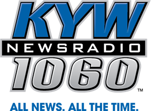 Current KYW logo